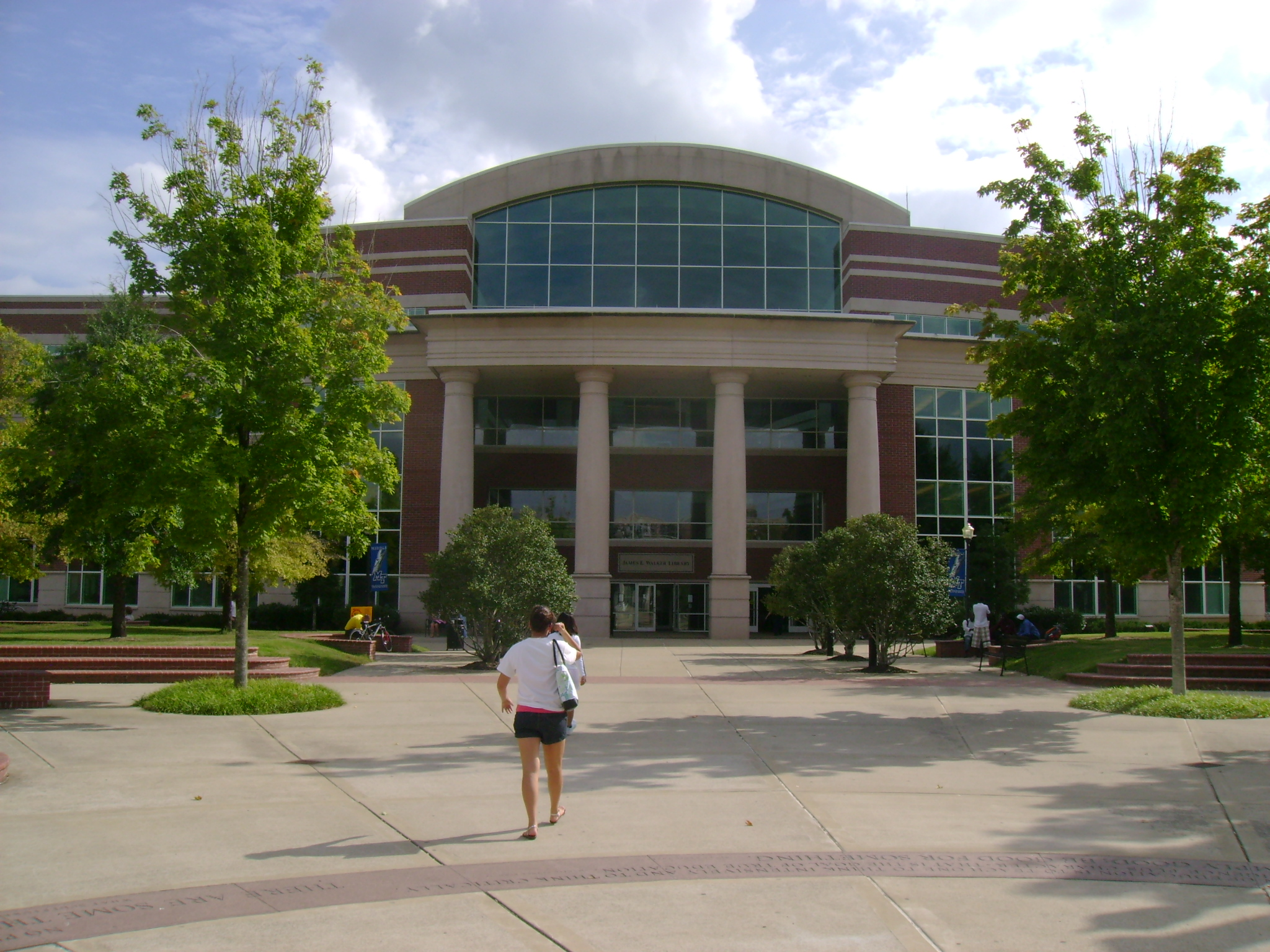 James E. Walker Library from the view of the quadrangle.